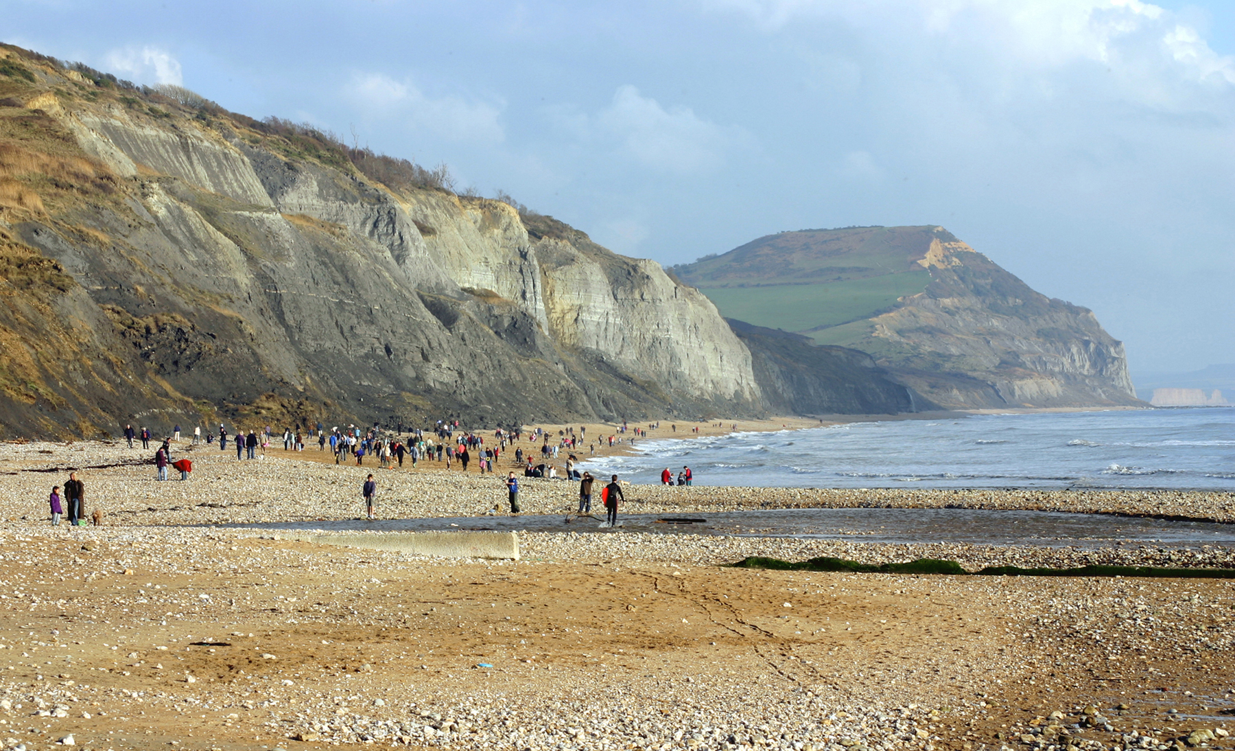 The Jurassic Coast at Charmouth, Dorset, England where Mary Anning discovered large reptiles in the shales of Black Ven; Golden Cap in the near distance. geotagged Unesco World Heritage Site: Devon and Dorset Coast